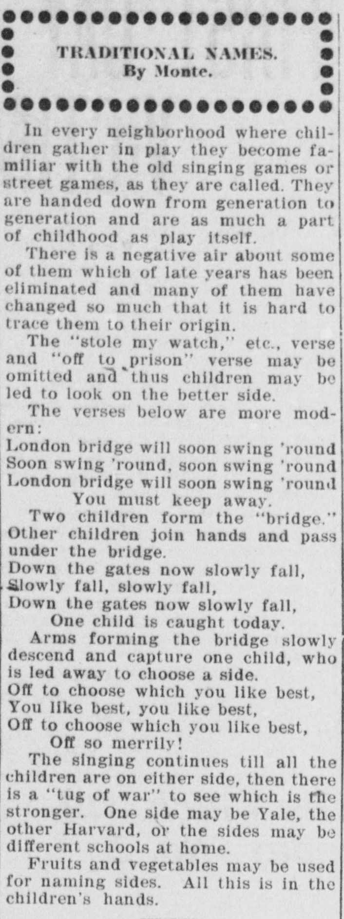 this 1904 column (titled 'Traditional Names, which I'm reasonably confident is a typo for "Traditional Games") describes various alternate verses and dances for the song "London Bridge is Falling Down".